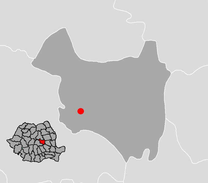 Localisation of Sfântu Gheorghe on Covasna County's map